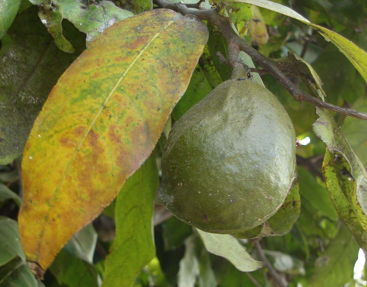 Inocarpus edulis or Inocarpus fagifer (ifi in Tonga), typical seed